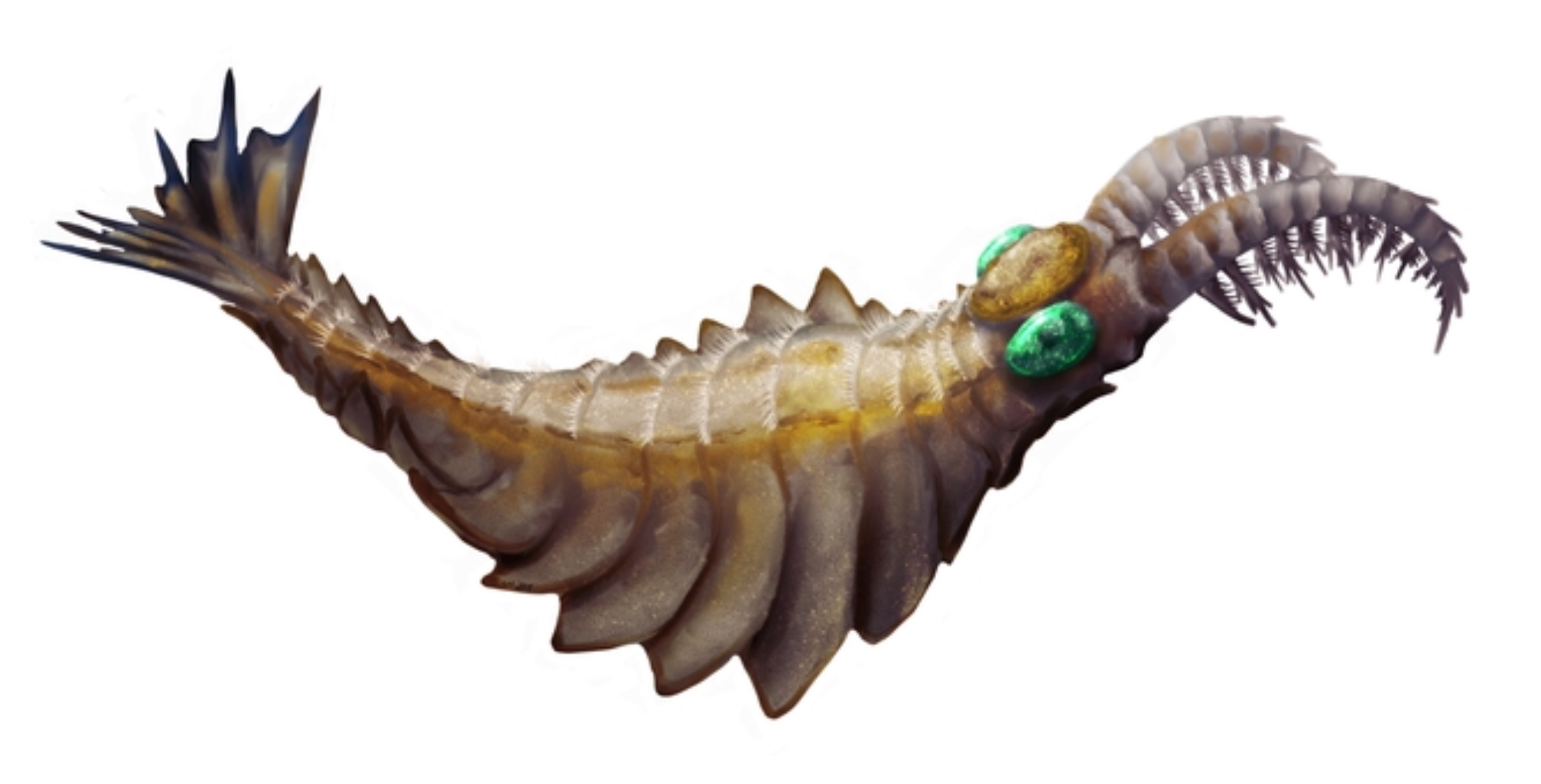 A reconstruction of Anomalocaris magnabasis